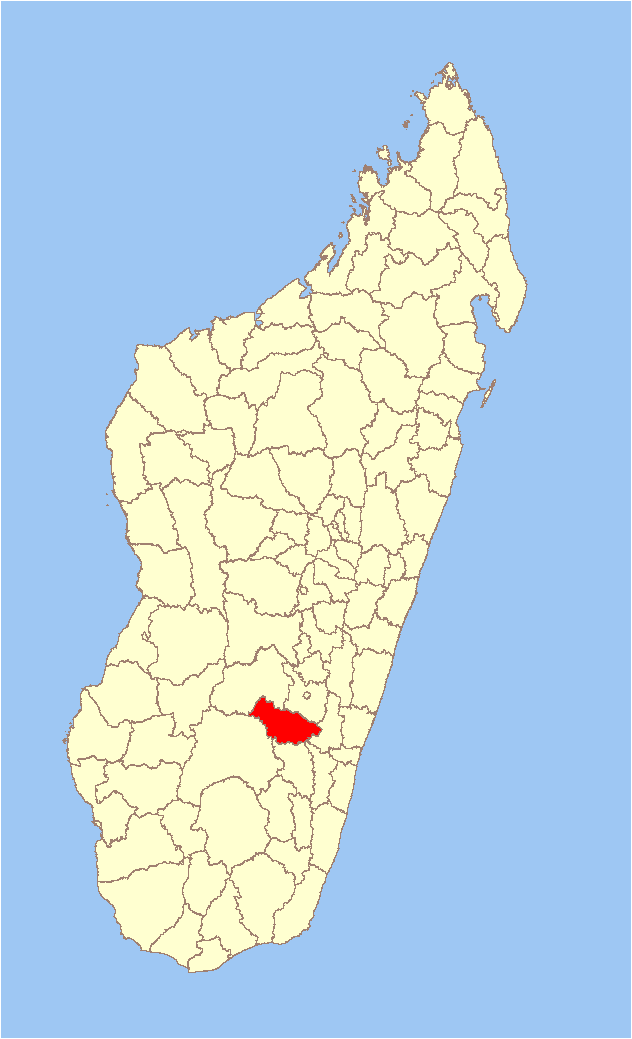 Map of Ambalavao district